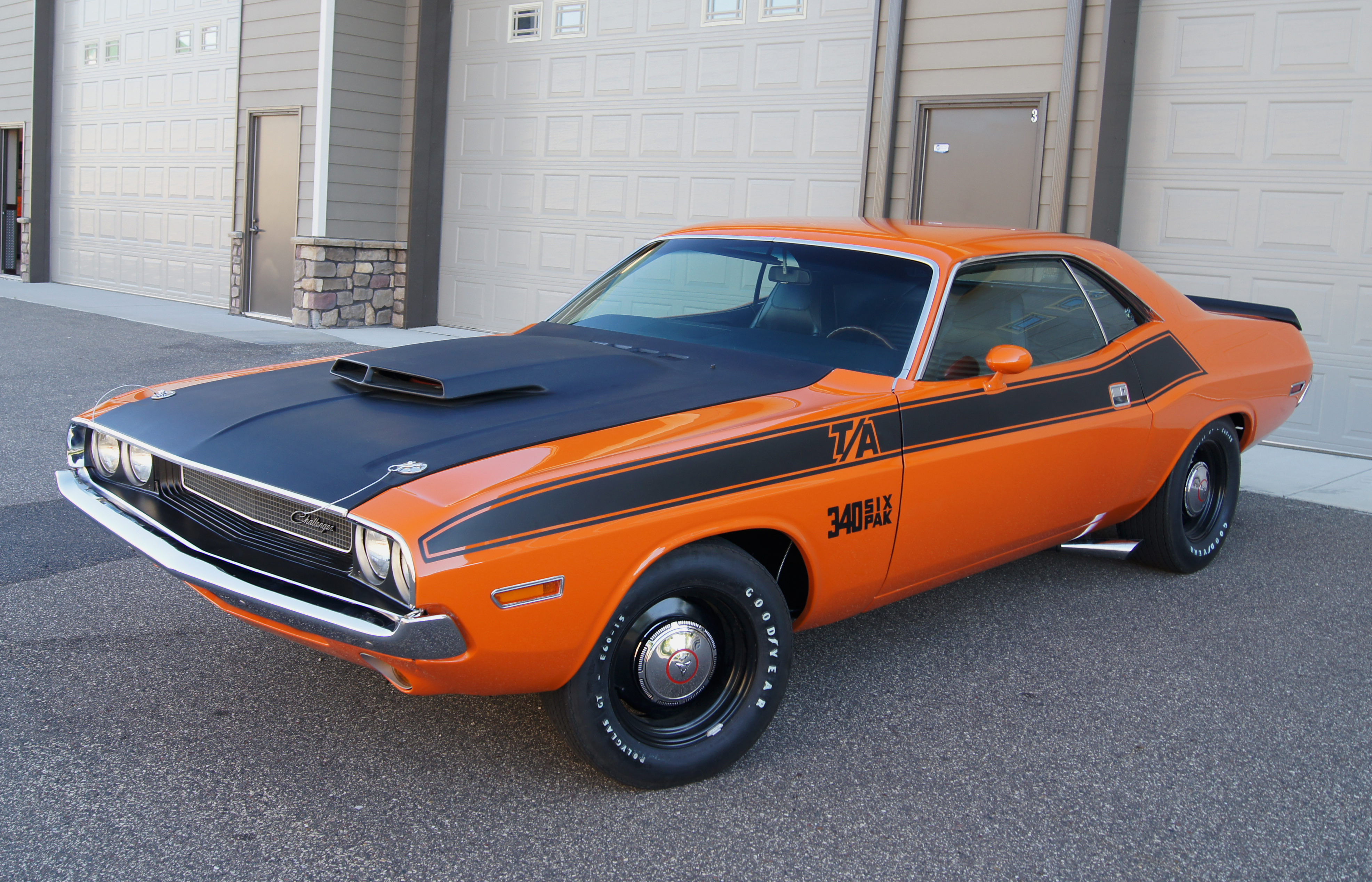 Dodge Challenger T/A at the 2013 Midwest Mopars AutoMotorPlex Carshow, held in Chanhassen, Minnesota.